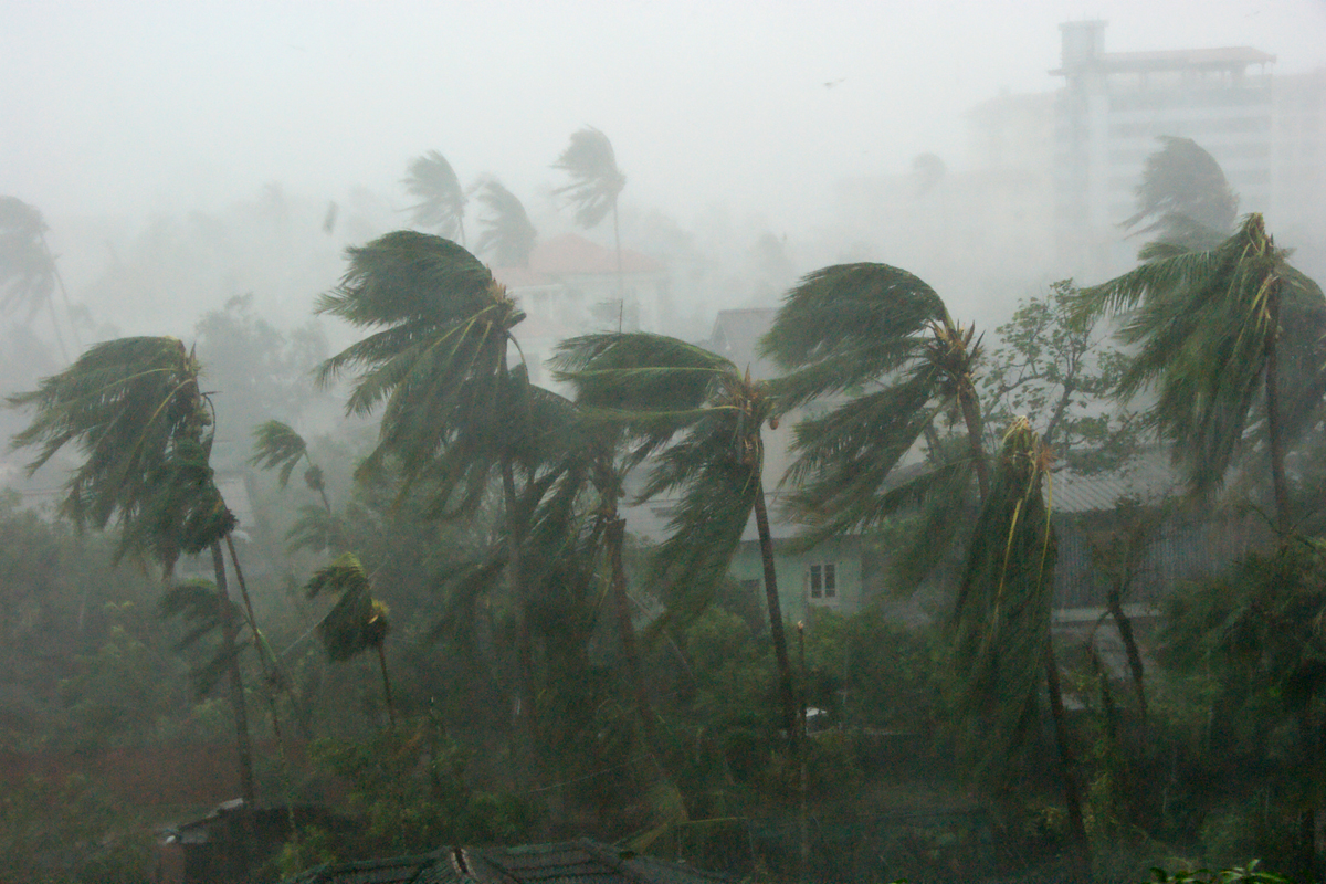 Cyclone Nargis in Myanmar. Views to show the effects of the wind and rain on 3 May 2008.